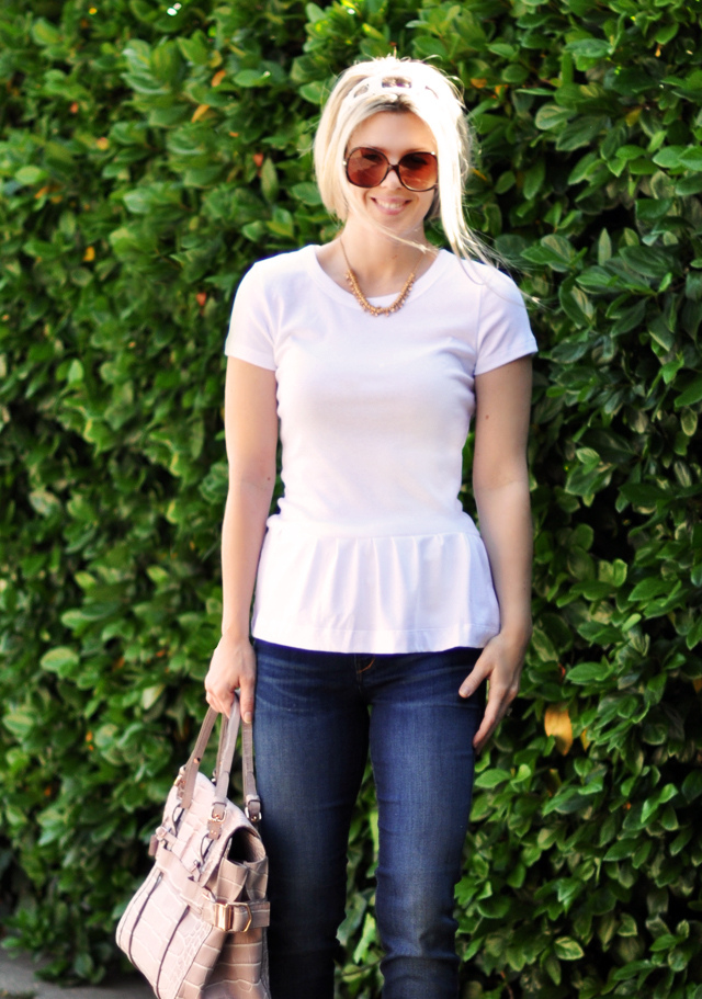 A woman wearing jeans and a t-shirt with a peplum hem